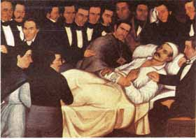 Death of general Francisco de Paulo Santander on 6th of May 1840 at 6:32 o'clock